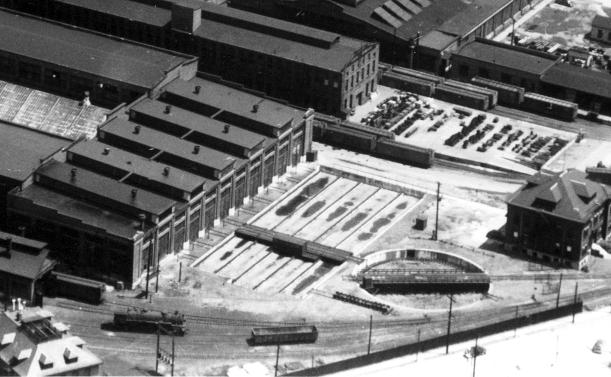 Collinwood yards, Cleveland, Ohio, USA, late 1940s